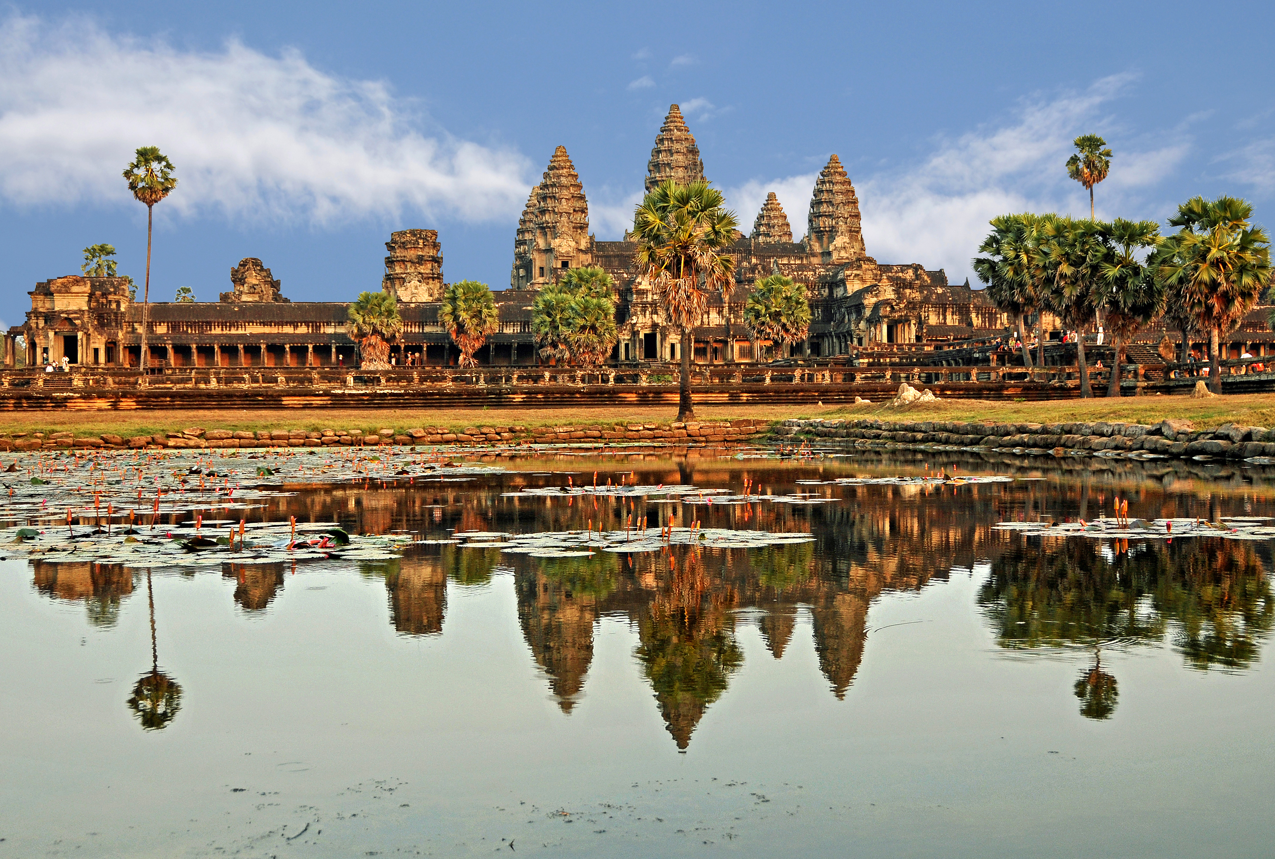 PLEASE, no multi invitations, glitters or self promotion in your comments. My photos are FREE for anyone to use, just give me credit and it would be nice if you let me know. Thanks - NONE OF MY PICTURES ARE HDR. Angkor Wat, forms a rectangle of about 1,500 by 1,300 meters, covers an area of nearly 200 hectares. The external enclosure wall defines an expanse of 1,025 meters by 800, or 82 hectares. Angkor Wat, built during the early years of the 12th century by Suryavaram II, honors the Hindu god Vishnu and is a symbolic representation of Hindu cosmology. Consisting of an enormous temple symbolizing the mythic Mt. Meru, its five inter-nested rectangular walls and moats represent chains of mountains and the cosmic ocean. Angkor was constructed out of sandstone that may have been quarried many miles away - possibly at Phnom Kulen - and transported to the construction site by the river. It is estimated that as much stone was used in building Angkor Wat as was used in the great pyramid of Khafre in Egypt. Cambodia